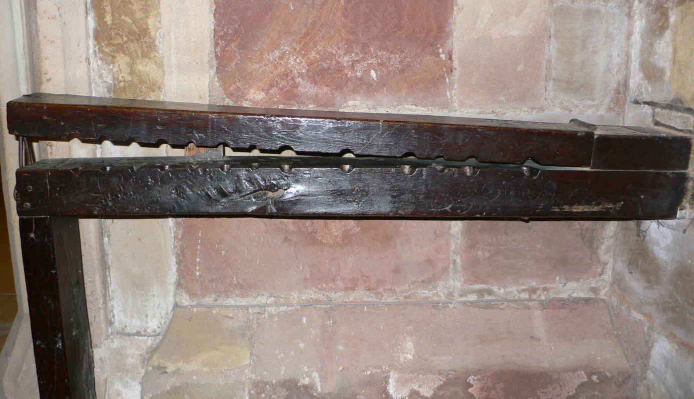 Finger pillory in St Helens, Ashby-de-la-Zouch